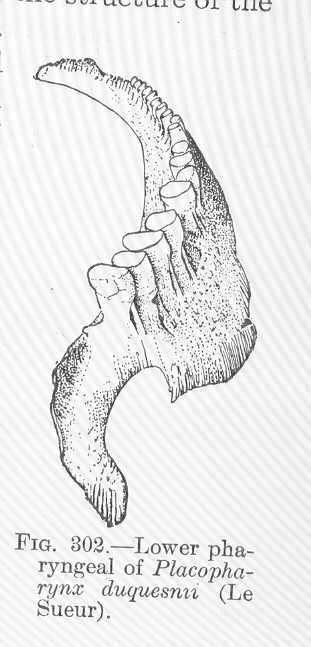 Lower pharyngeal of Placopharynx duquesnii (Le Sueur) Subject: Catostomidae--Anatomy, Placopharynx--Anatomy Tag: Fish